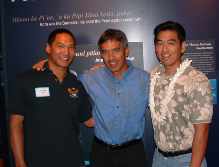 Actor Jason Scott Lee, left, legendary Hōkūle'a navigator Nainoa Thompson, center, and artist Layne Luna at the NOAA museum opening of an exhibition by Layne Luna, Hilo, Hawaii, 2003. (See also Papahānaumokuākea National Maritime Monument